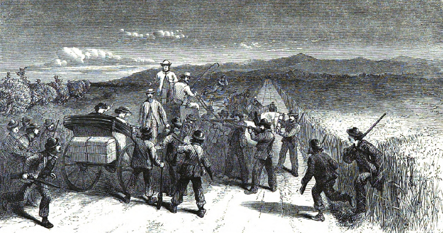 Capture of Moens in Battaglia by brigands (Italy 1865)